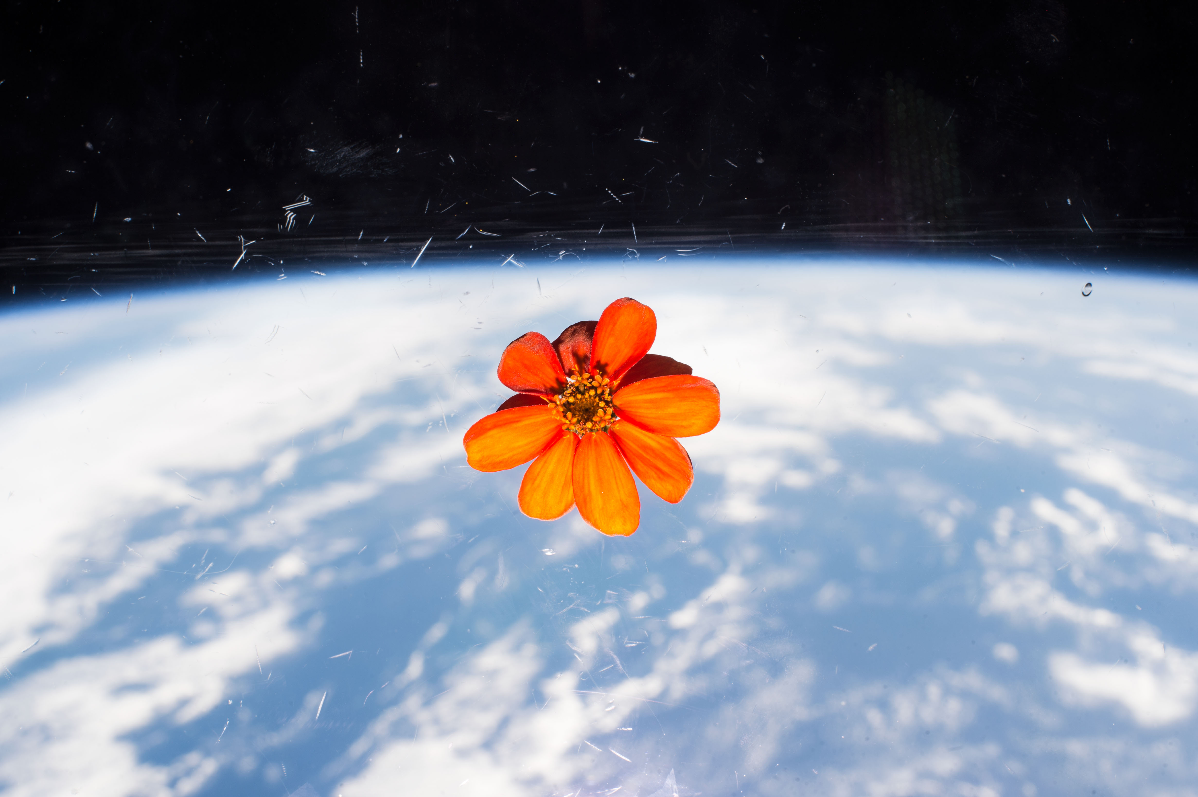 NASA astronaut Tim Kopra tweeted this image with the comment: "#SpaceFlower from our astrogardener @StationCDRKelly"